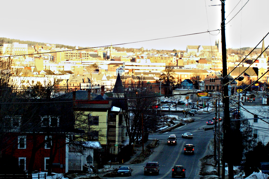 Auburn (and Lewiston) from Court Street. [Image was remastered from original]